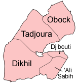 Map of the districts of Djibouti, named in English. Note that as of sometime in 2005 or so, this map was obsolete. The individual maps are: 'Ali Sabhi Djibouti Dikhil Tadjoura Obock